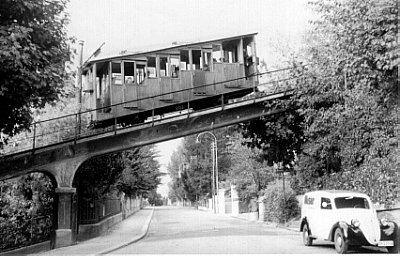 The bridge over the Hadlaubstrasse around 1940.